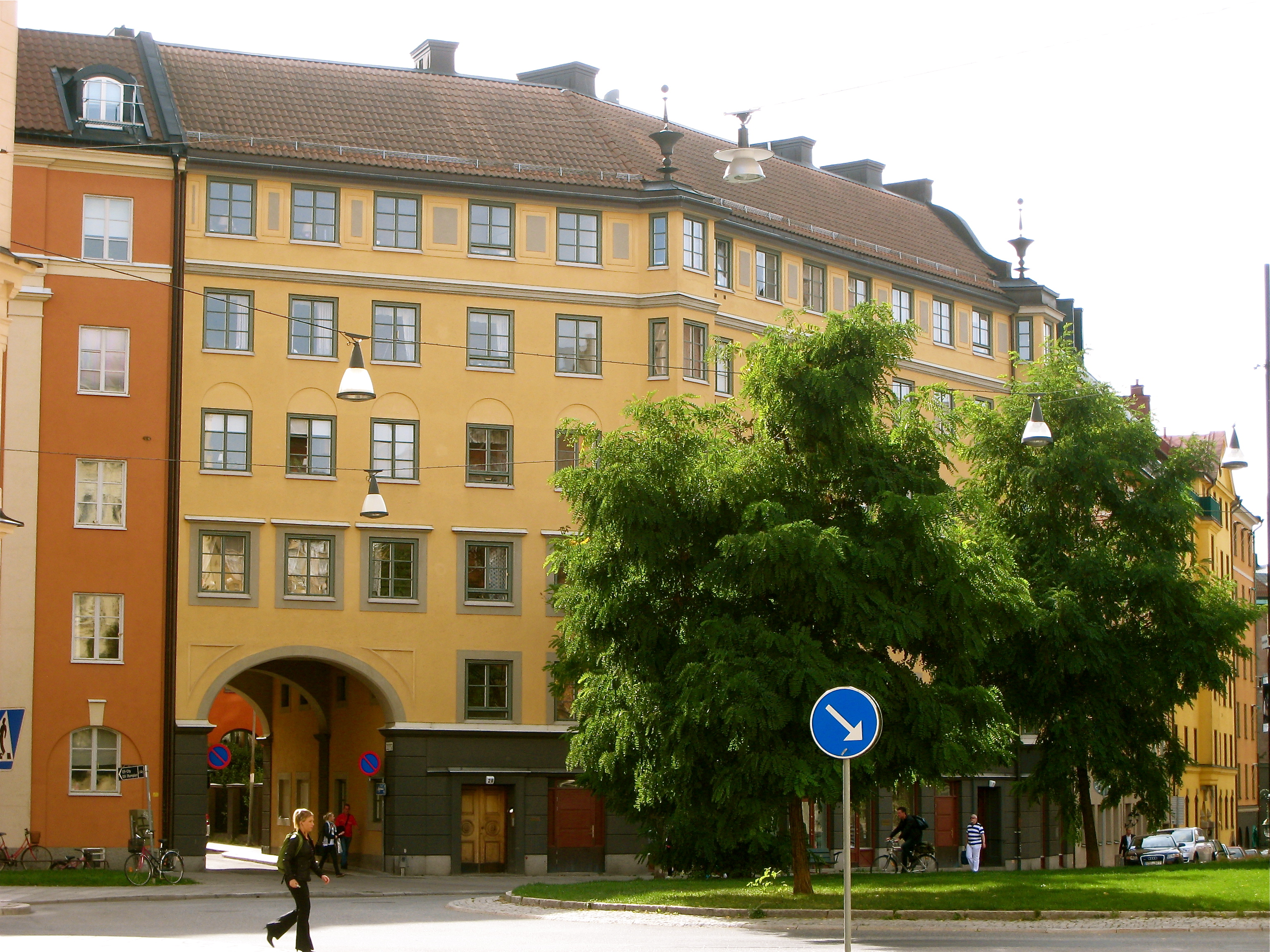 Fastigheten Näktergalen 29 ritad av Sven Wallander och uppförd 1924 belägen i korsningen Östermalmsgatan/Rådmansgatan vid Danderydsgatans mynning.